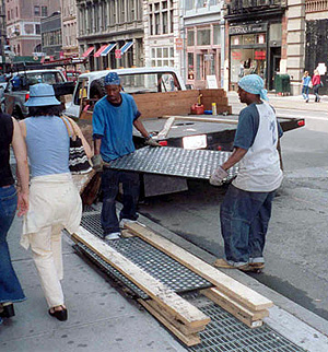 Just prior to installation, each panel was lifted by hand from the back of a truck and stacked on the sidewalk.